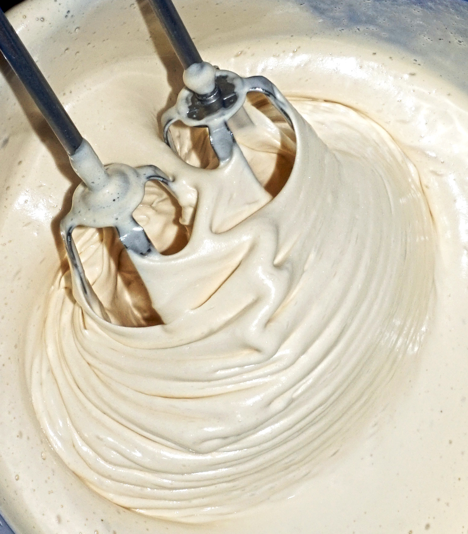 Dough (eggs and sugar) being mixed with a hand mixer.